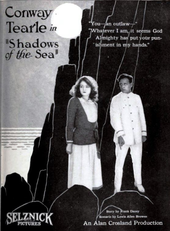 Advertisement for the American drama film Shadows of the Sea (1922) with Doris Kenyon and Conway Tearle, on page 10 of the January 21, 1922 Exhibitors Herald.